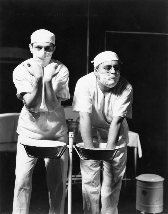 Promotional still for the Broadway production of Men in White Photograph appears on the cover of Radio Guide to promote the adaptation on NBC Radio's Pulitzer Prize Plays broadcast of July 14, 1938